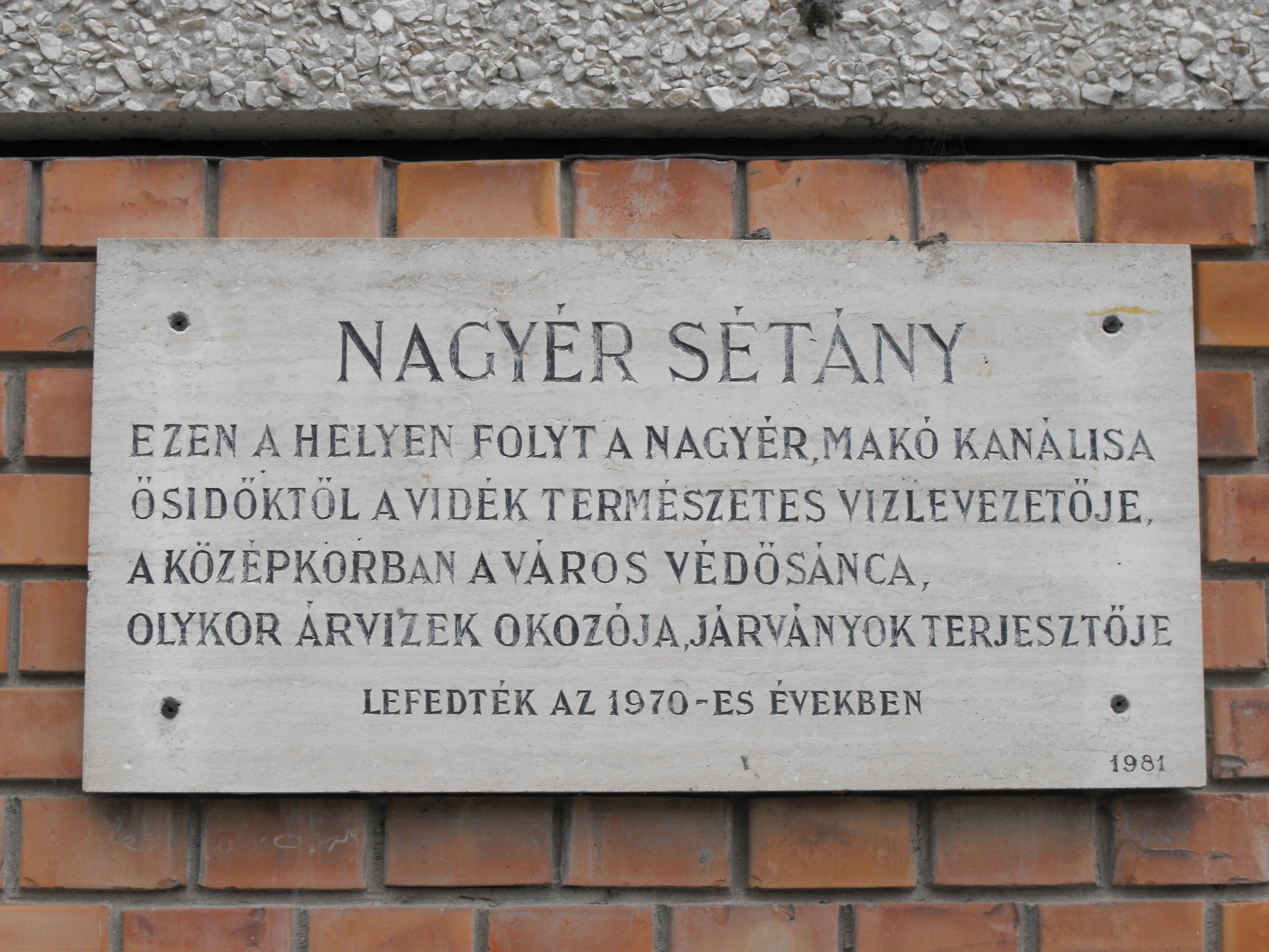 Memorial tablet of the Nagyér, former chanel in Makó, Hungary.